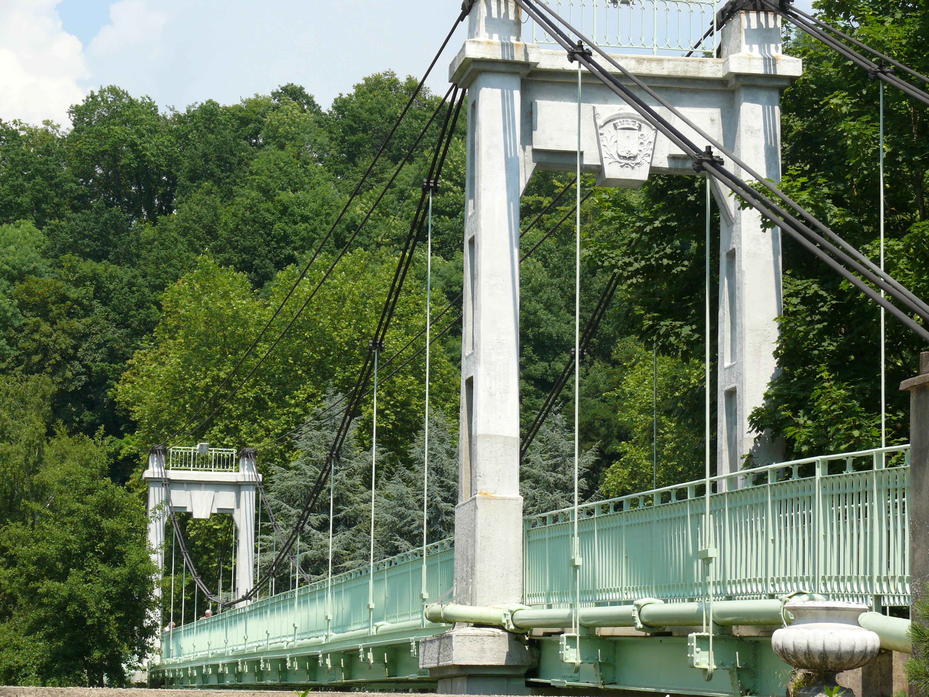 Passerelle du Mont Olympe in Charleville-Mezières. Charleville Mezières is a French town in the département des Ardennes and the region Champagne-Ardenne.